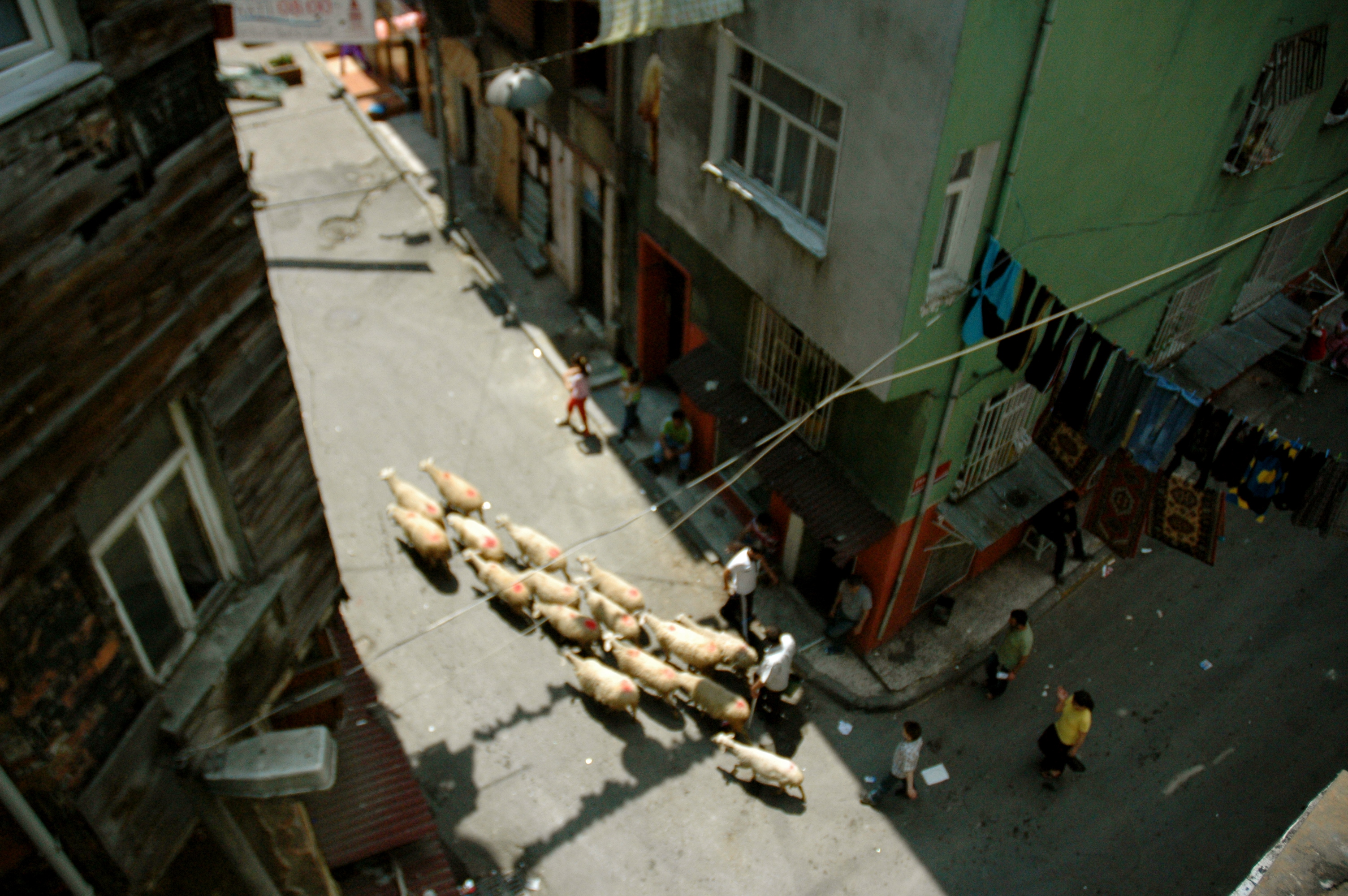 Sheep in the neighborhood of Tarlabaşı in Istanbul